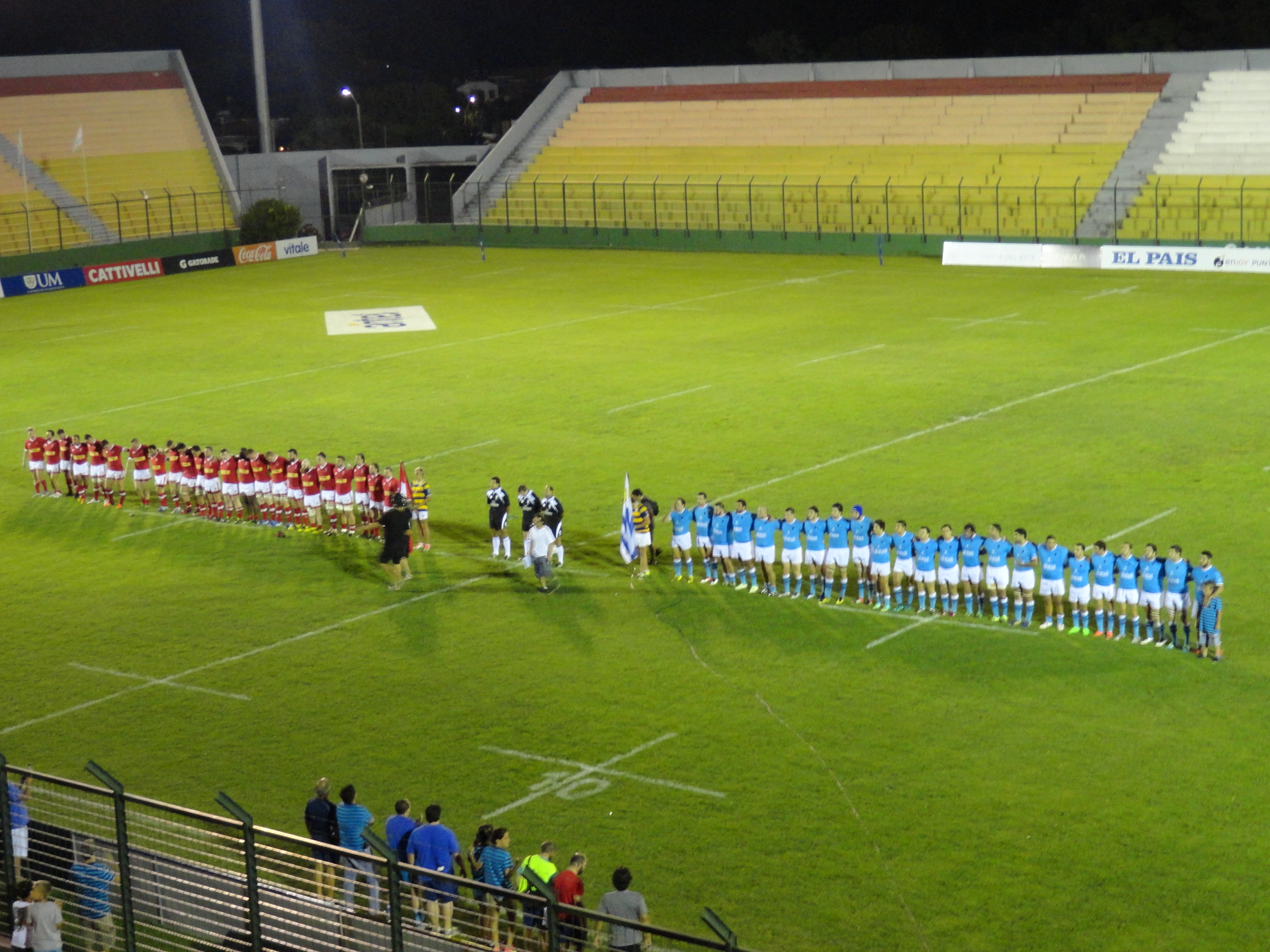 Uruguay vs Canada rugby union match at the 2017 Americas Rugby Championship.